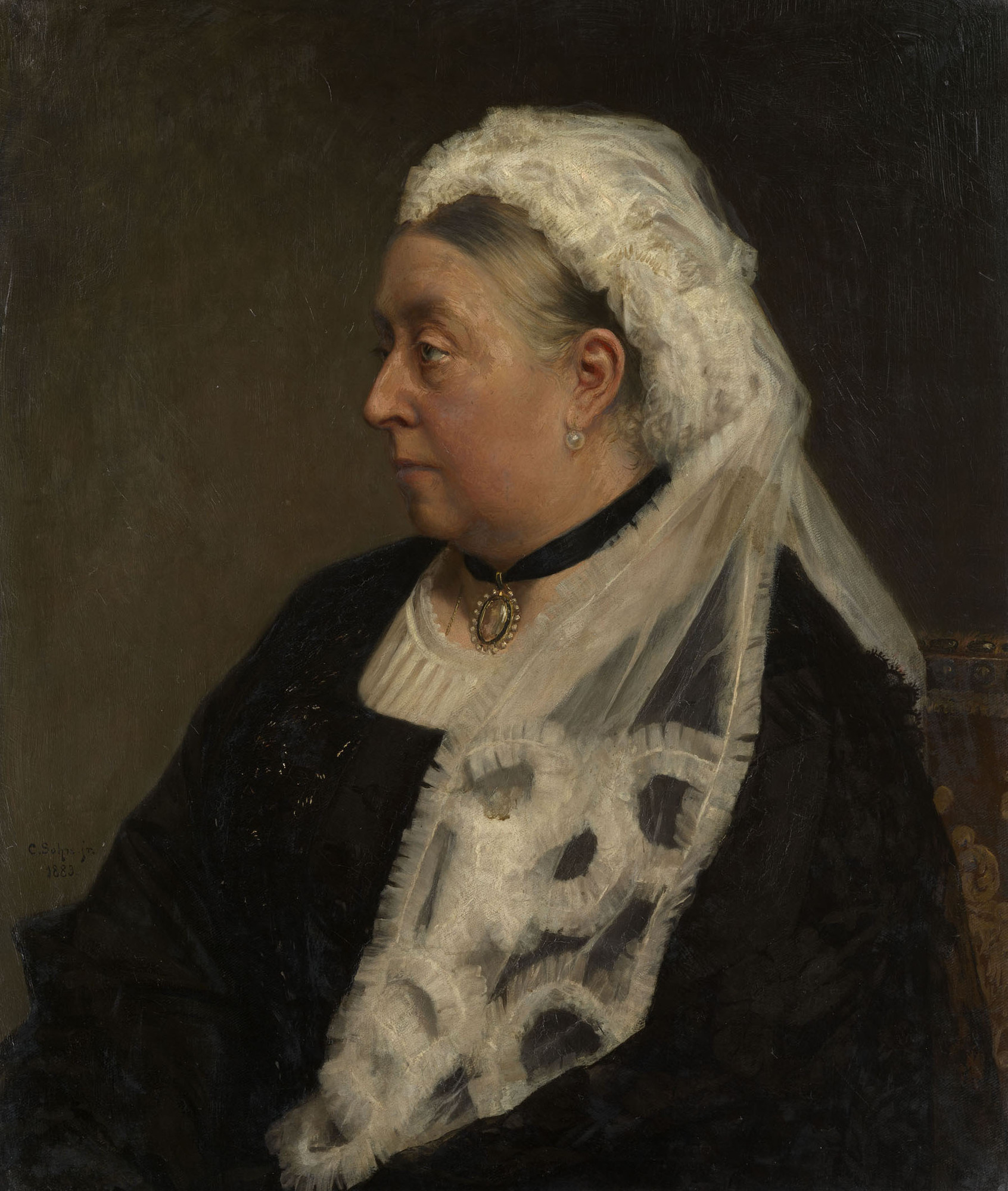 Queen Victoria (1819-1901) Creator: Carl Rudolph Sohn (1845-1908) (artist) Creation Date: Signed and dated 1883 Materials and techniques: Oil on canvas Dimensions: 72.3 x 60.9 cm Provenance: Painted for Queen Victoria Description: Carl Rudolph was the son of Carl Ferdinand Sohn (1805-1867); the father was known to Queen Victoria through his portrait of the Queen of Hanover (RCIN 405078); the son was employed by members of the Royal Family 1882-6. This portrait of Queen Victoria was based on a photograph which is still in the Royal Photographic Collection. The Queen is wearing her white mourning head-dress. Signed and dated: C Sohn. Jr. / 1883.